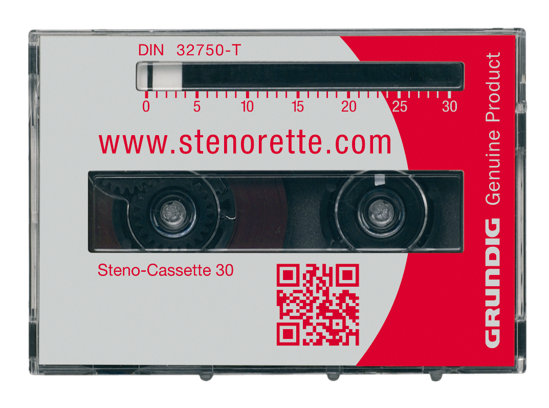 Steno-Cassette 30 for Grundig dictation machines